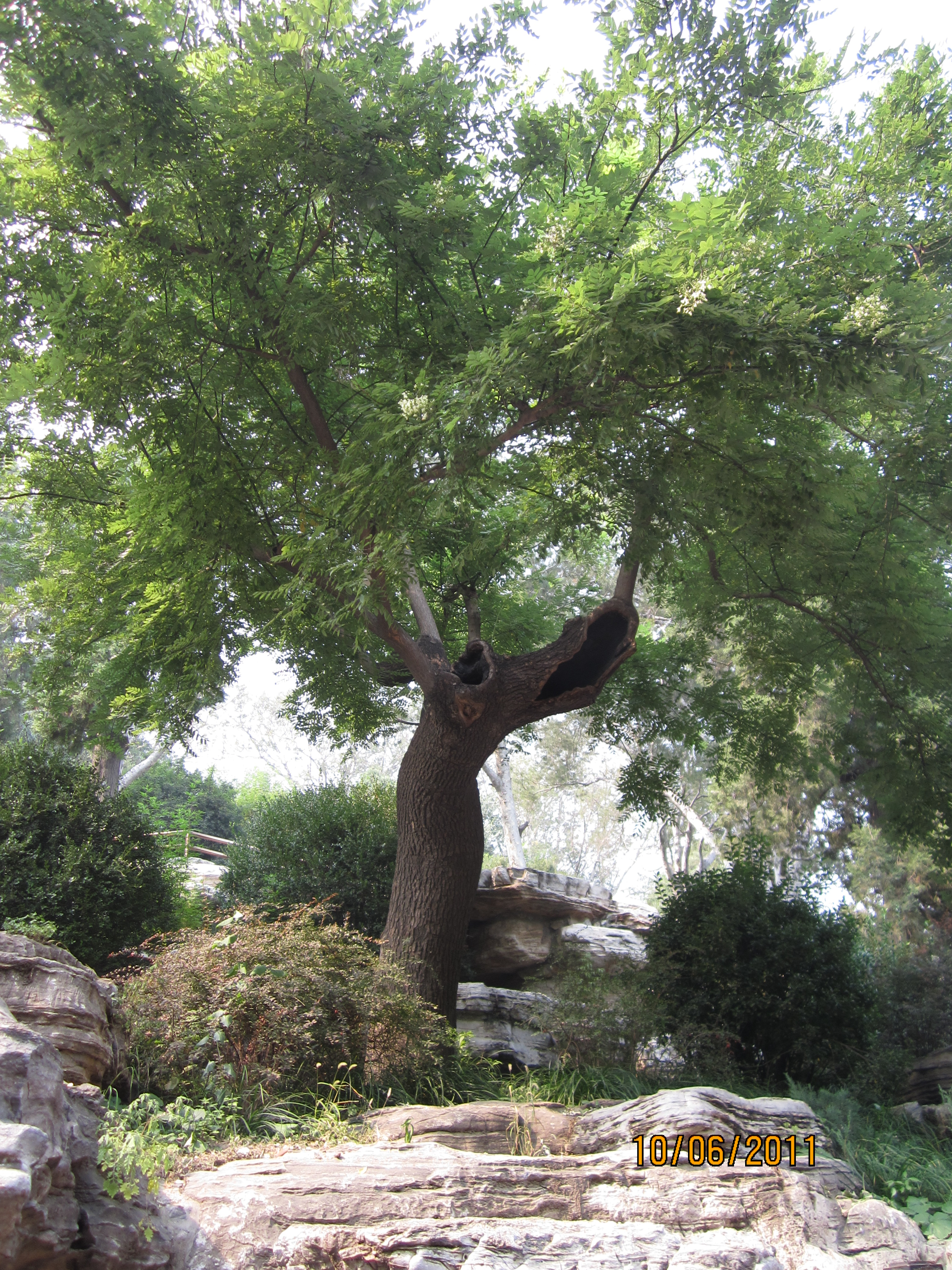 Guilty Scholar tree - Chongzhen's death place in 1644